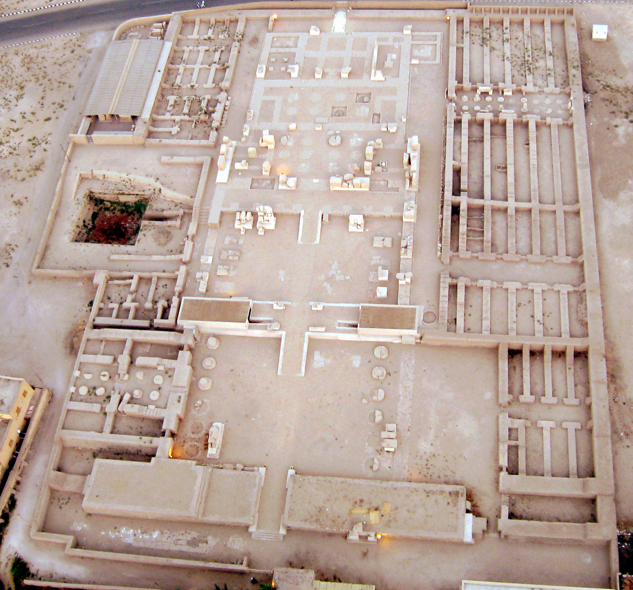 Aerial view of Merenptah's Mortuary Temple, Teby, West Bank, Egypt